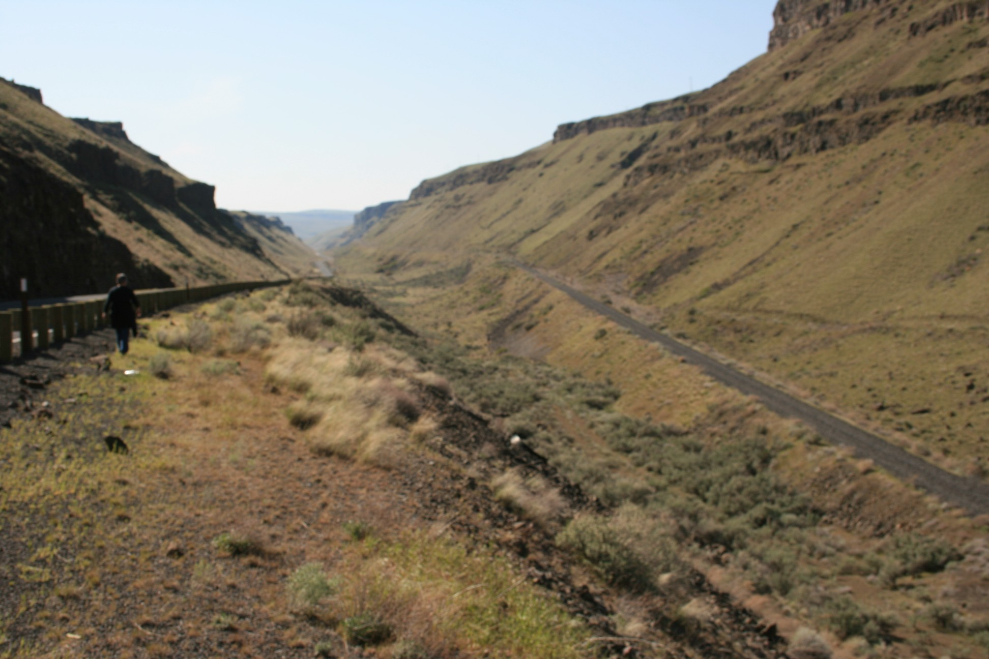 Photograph of Devils Canyon looking southward toward the Snake River in Washington state. For use with the Columbia Plateau Trail article.